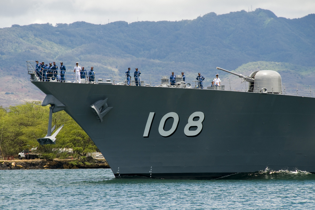 PEARL HARBOR (July 6,2010) - The Japan Maritime Self Defense Force Murasame-class destroyer JS Akebono (DD-108) departs Joint Base Pearl Harbor-Hickam to participate in Rim of the Pacific (RIMPAC) 2010 exercises. Akebono will participate in bilateral exercises to help strengthen regional partnerships. (U.S. Navy photo by Mass Communication Specialist 2nd Class Paul D. Honnick/Released) Nikon D300